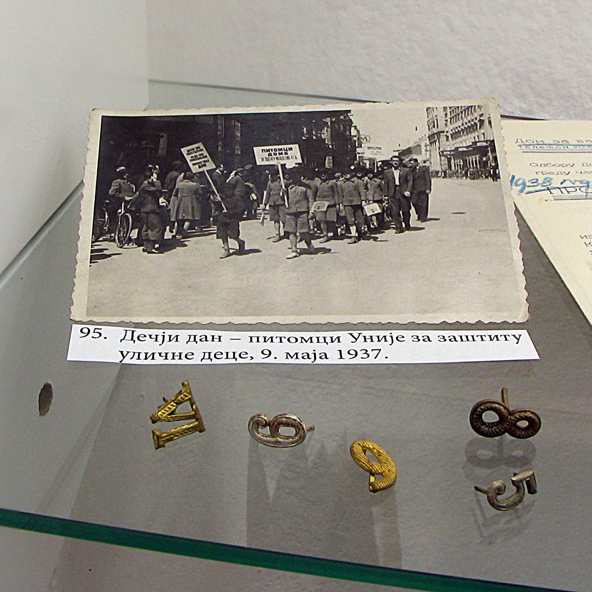 Children's Day 1937, Educational museum, Belgrade